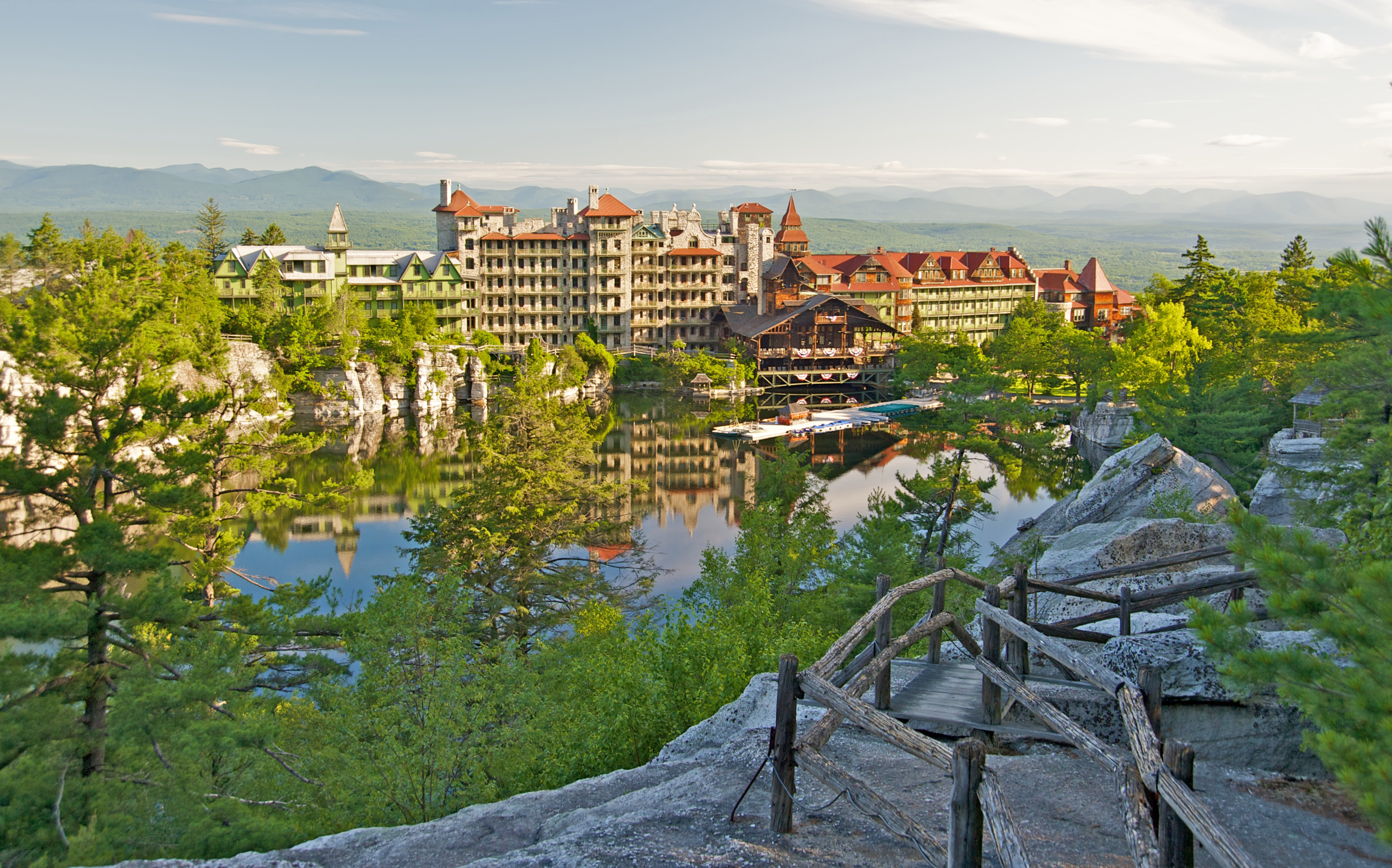 View of guest rooms that surround Lake Mohonk seen from one of many hiking trails at Mohonk Mountain House